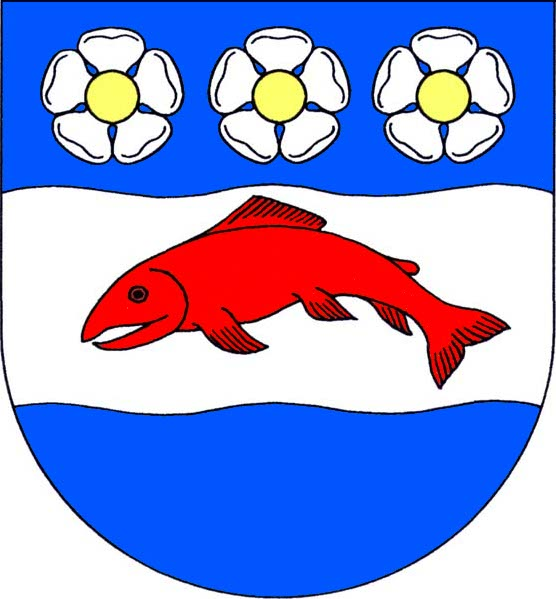 Municipal coat of arms of Dolní Zálezly village, Ústí nad Labem District, Czech Republic.